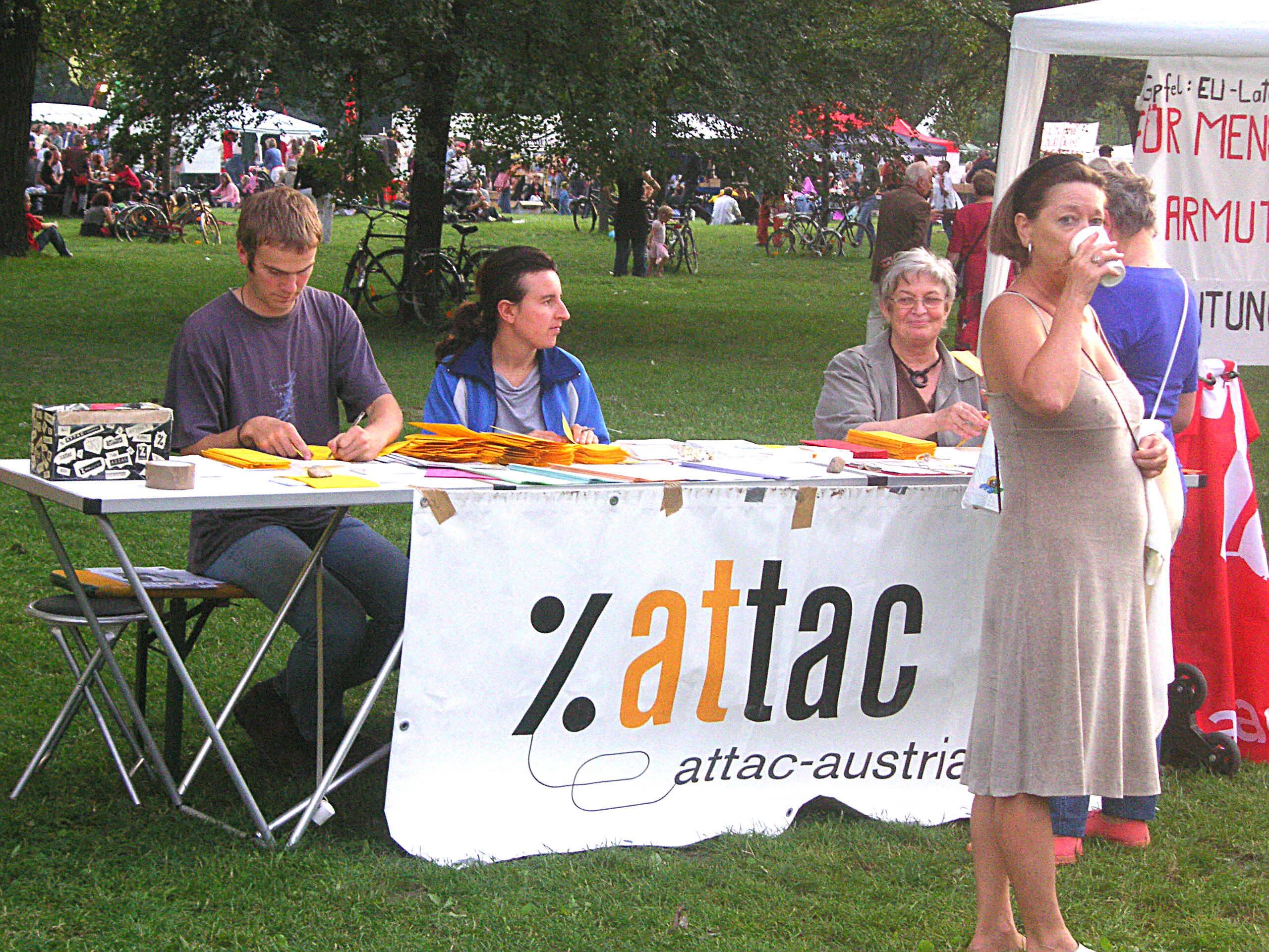 An ATTAC stall at the Volksstimmefest, Vienna, Austria, September 4, 2005. The Volksstimmefest is an annual two-day event organized by the Communist Party of Austria at the Jesuitenwiese, Prater, Leopoldstadt. It takes place on the first weekend in September.